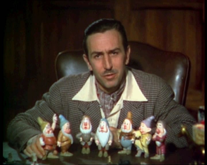 Snow White and the Seven Dwarfs is the first animated feature in the Disney animated features canon. It was produced by Walt Disney Productions, premiered on December 21, 1937, and was originally released to theatres by RKO Radio Pictures on February 8, 1938..